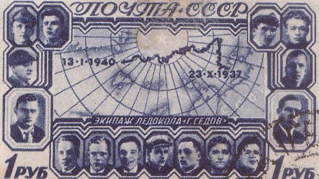 Postage stamp of the Soviet Union. Crew of steam icebreaker Georgy Sedov, and its drifting route (1937-1940). 1940, CPA 732.